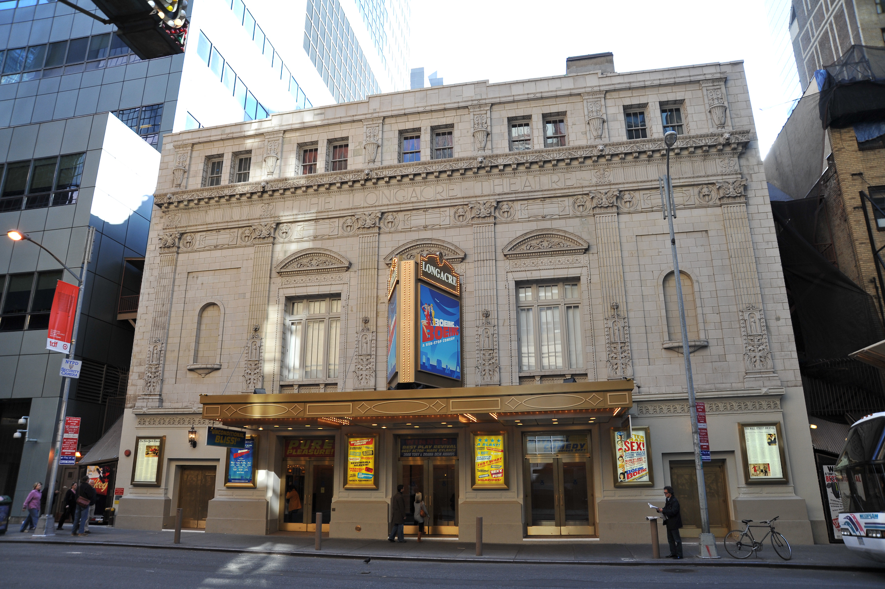 A great day in Manhattan, NYC.